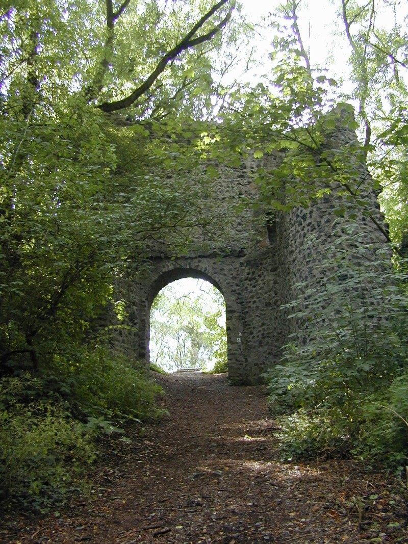 Burgruine Kalsmunt, Innere Toranlage, Wetzlar